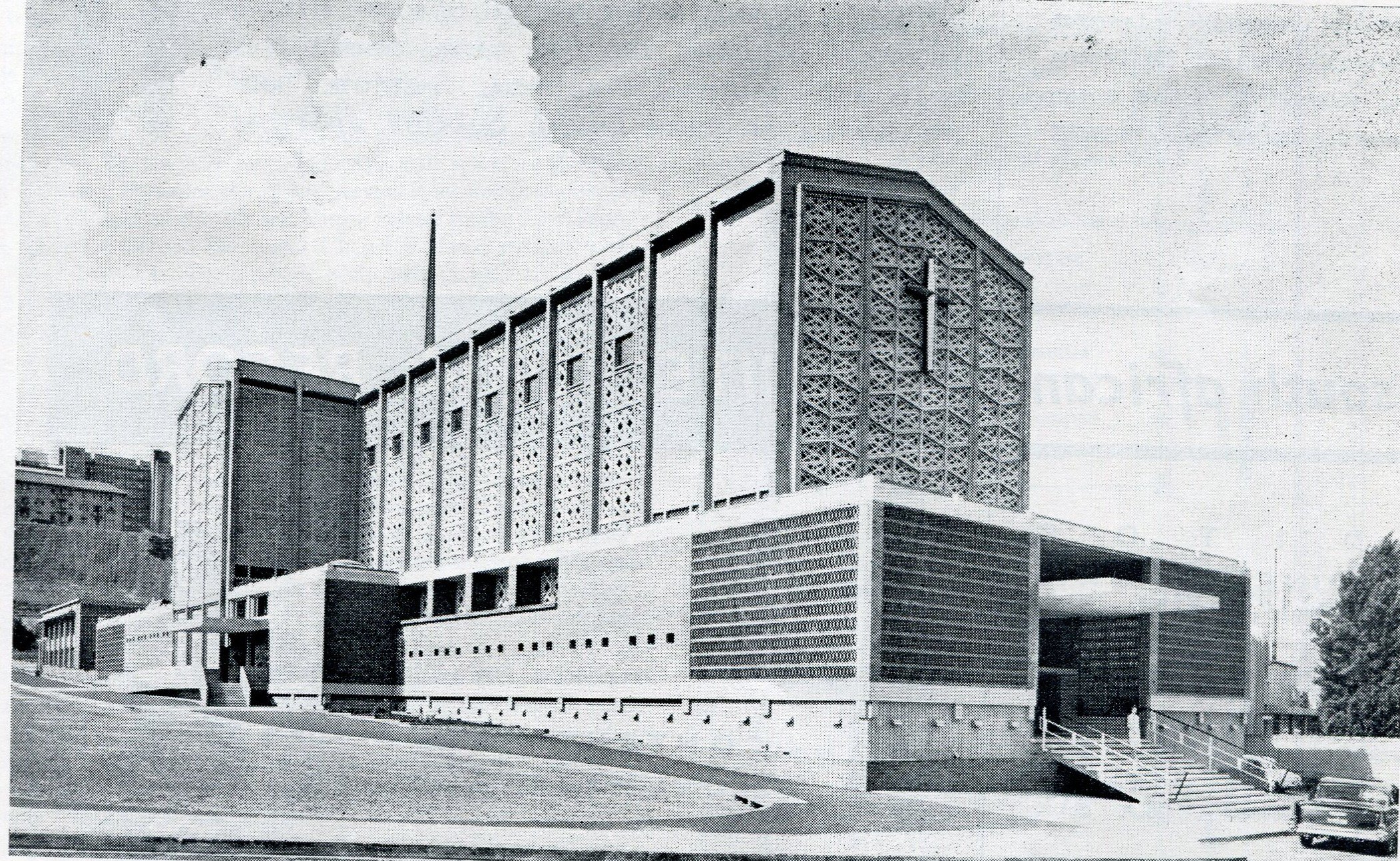 Cathedral of Christ The King in the city of Johannesburg. These are works from the Johannesburg Heritage Foundation released to be used in the Joburgpedia which I'm a Wikipedian in Residence.